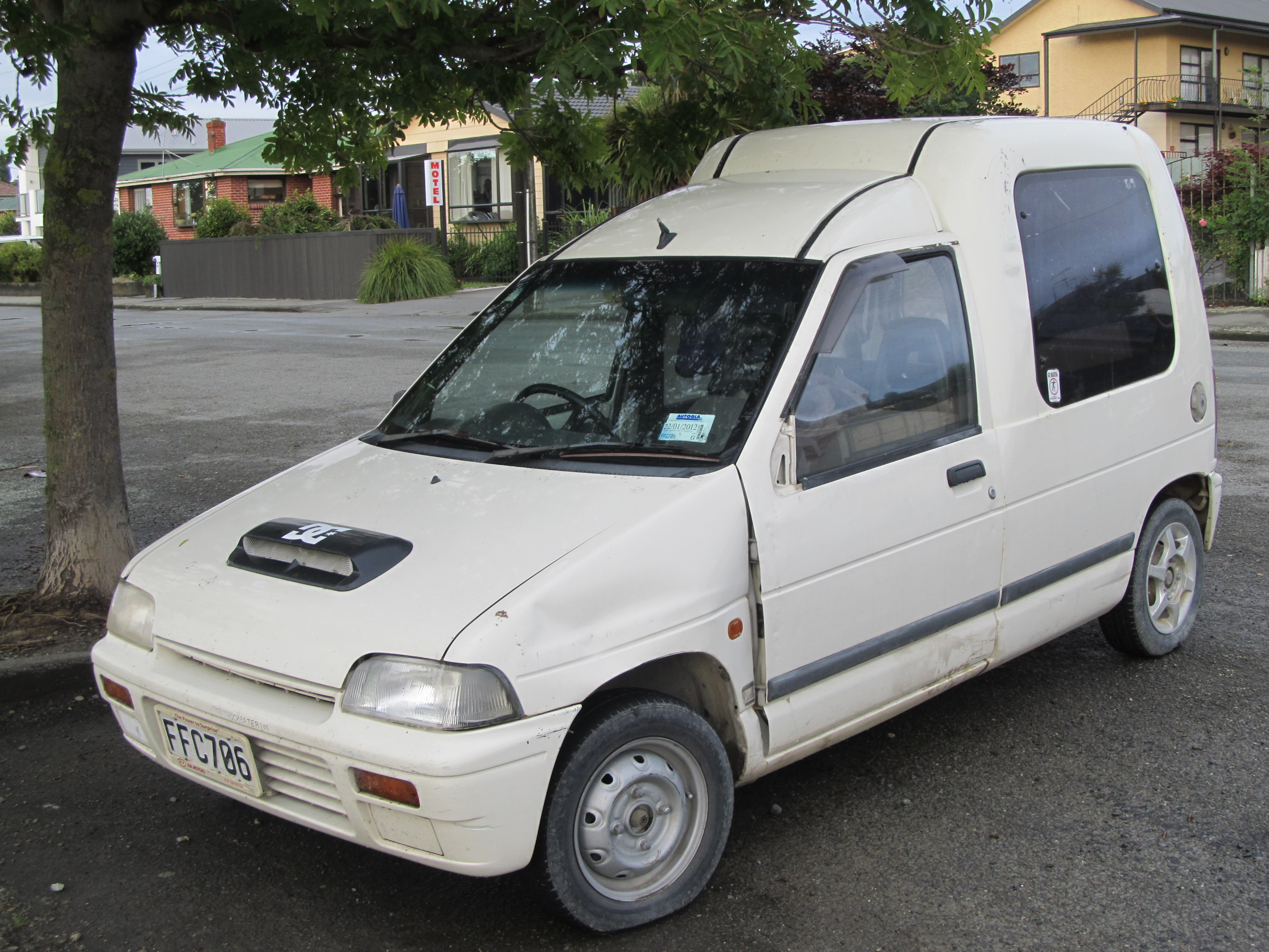 FFC706 Why Suzuki thought a 657cc Alto van would be a good idea is beyond me...